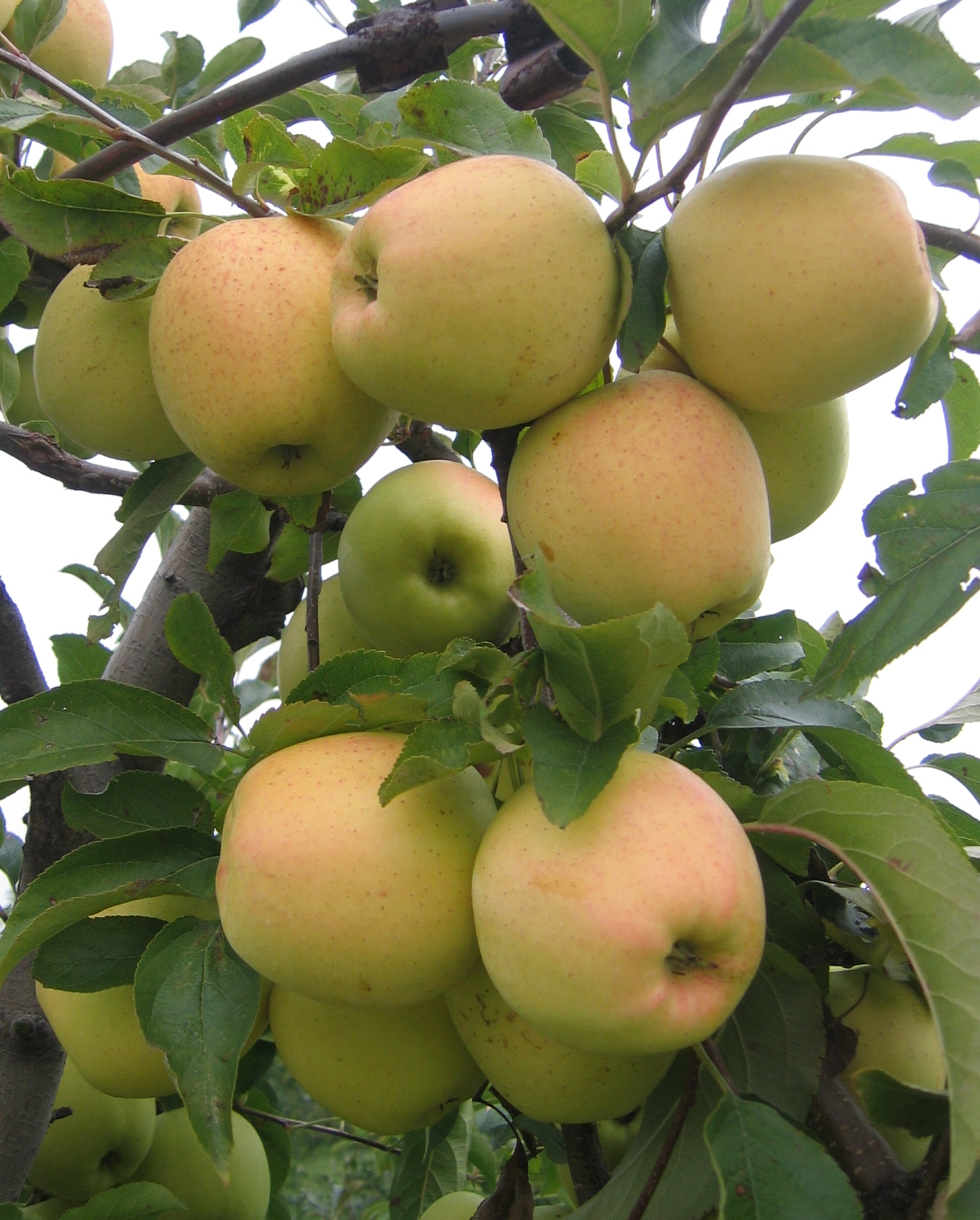 Fruits of apple cultivars - Golden Delicious